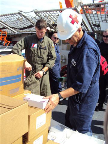 PORT-AU-PRINCE, Haiti Ð Petty Officer 1st Class Larry Berman of the Coast Guard Cutter Tahoma reviews medical supplies before heading into Port-au-Prince to assist with medical relief efforts. U.S. Coast Guard photograph.